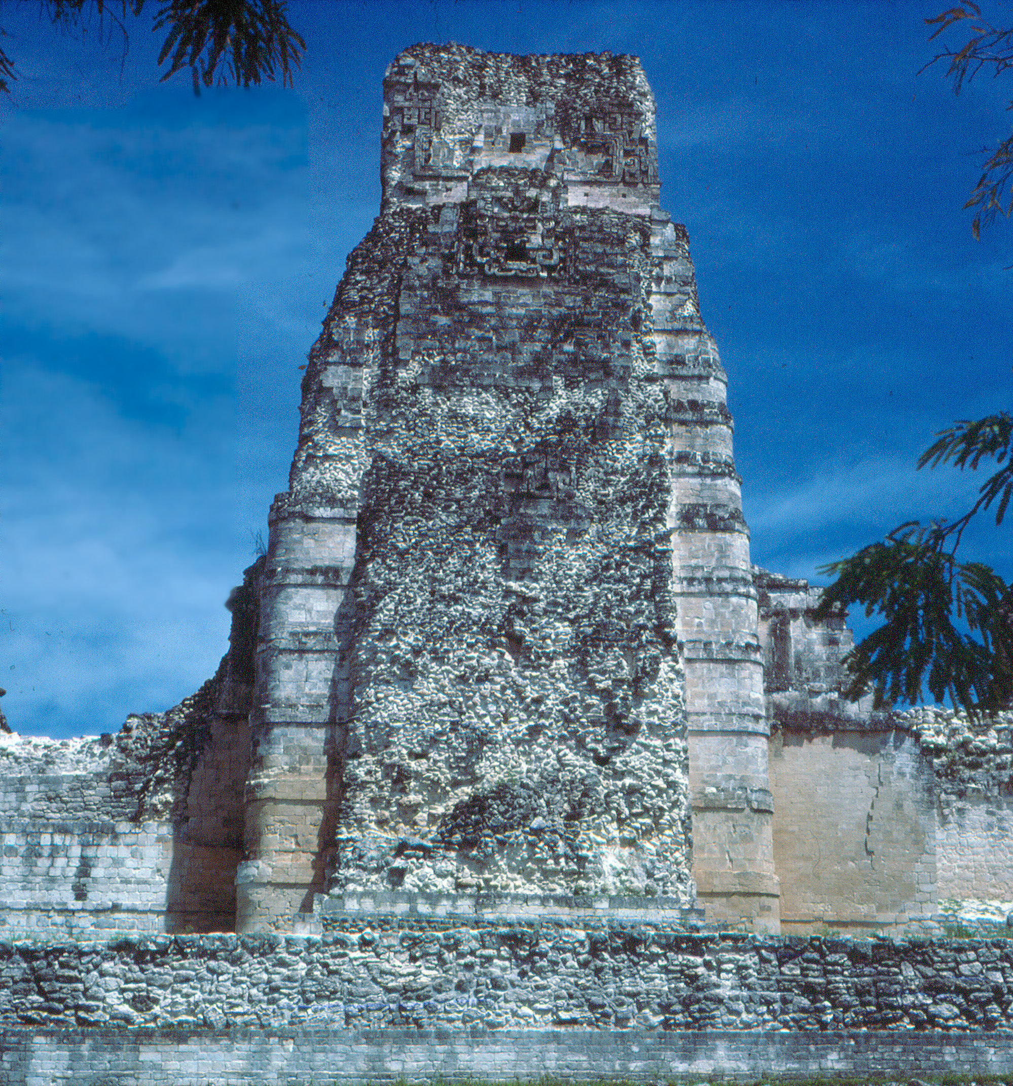 Xpuhil, Campeche, Mexico: Central tower of main building of Group I.